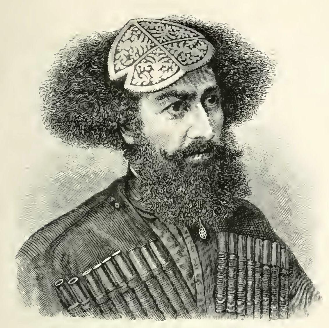 Svan men (Savage Svânetia).